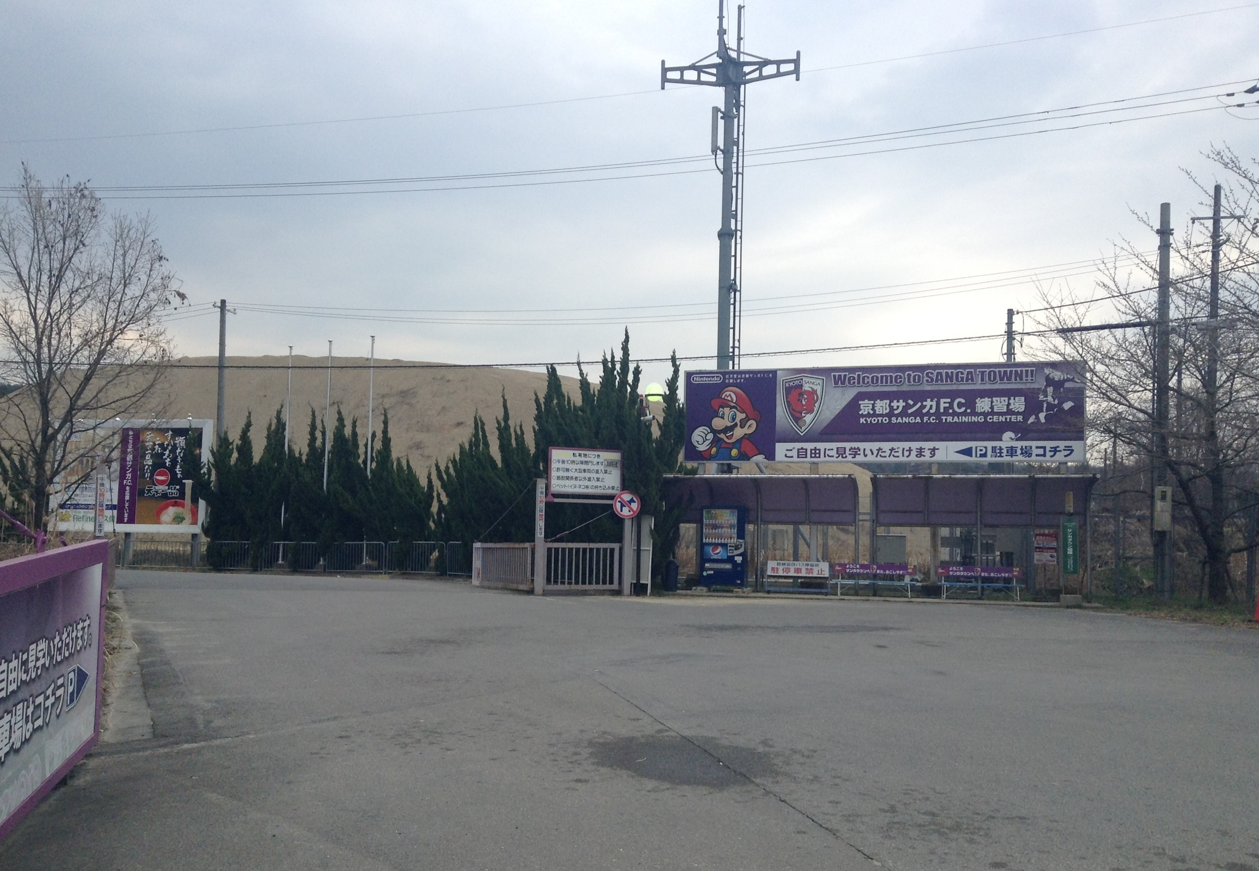 Entrance of Sanga Town Joyo